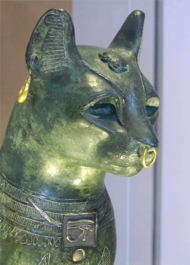 Gayer-Anderson Cat - in British Museum, taken by Glenn Ashton, author of thriller Obelisk Seven which features Gayer-Anderson Cat